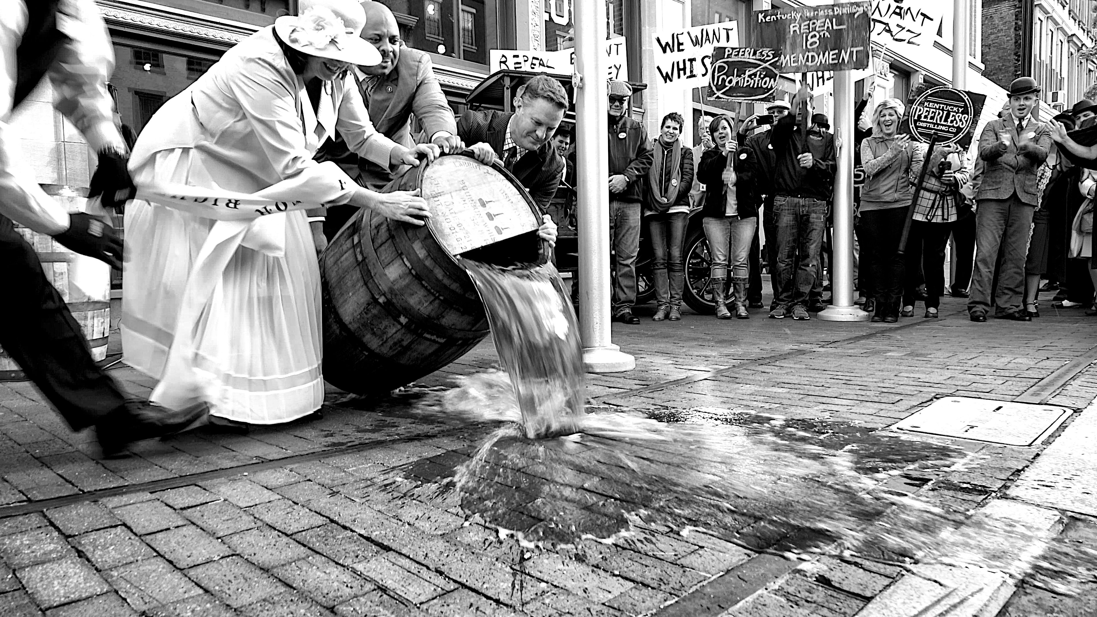 Frazier president Penny Peavler and director of marketing Andy Treinen dump a barrel of bourbon to mark the opening of "Spirits of the Bluegrass: Prohibition and Kentucky."